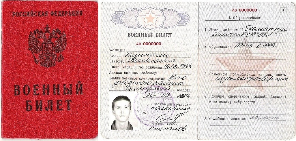 Military ticket (Military document) conscript military service of the Russian army